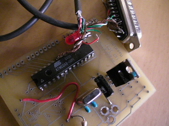 This is a photo of the first Arduino ever made.